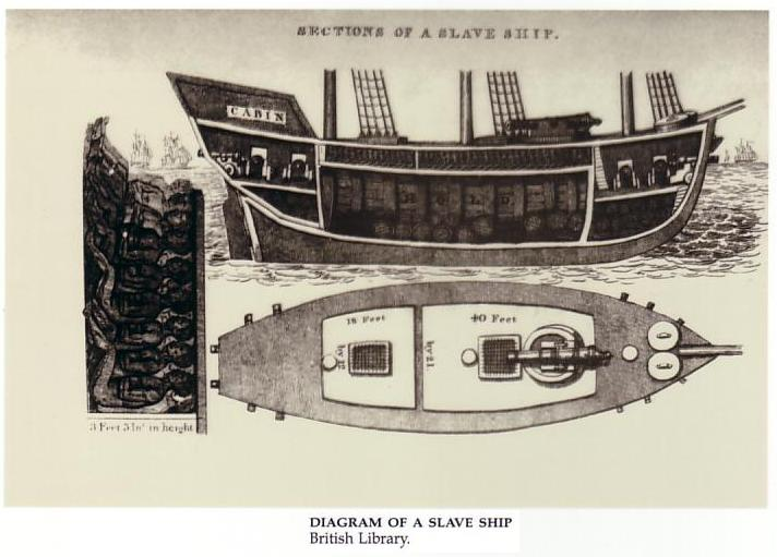 Diagram of a slave ship